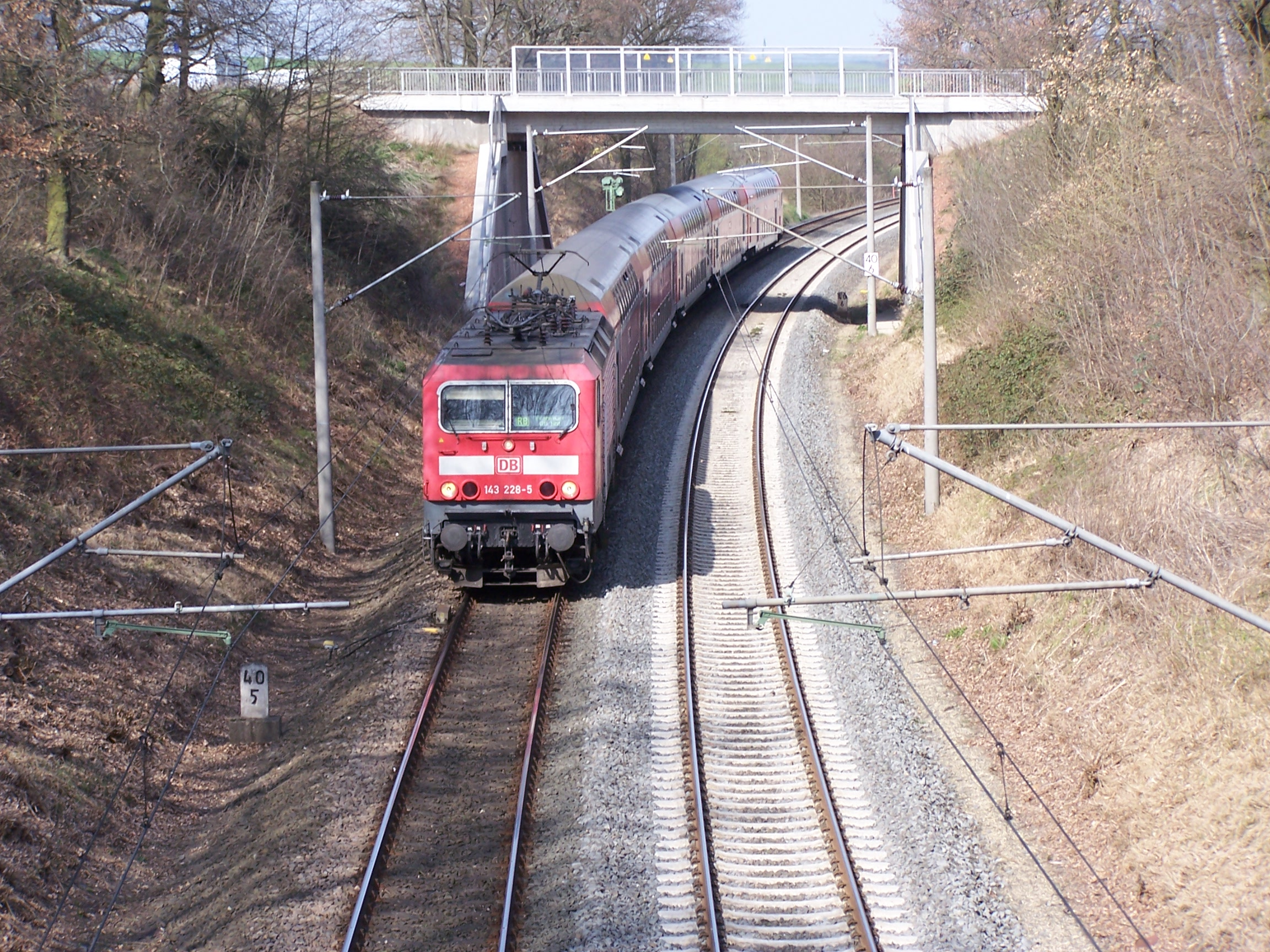 Main-Lahn-Bahn (Railway line Frankfurt-Limburg a.d.L.), between station Idstein and Idstein-Wörsdorf